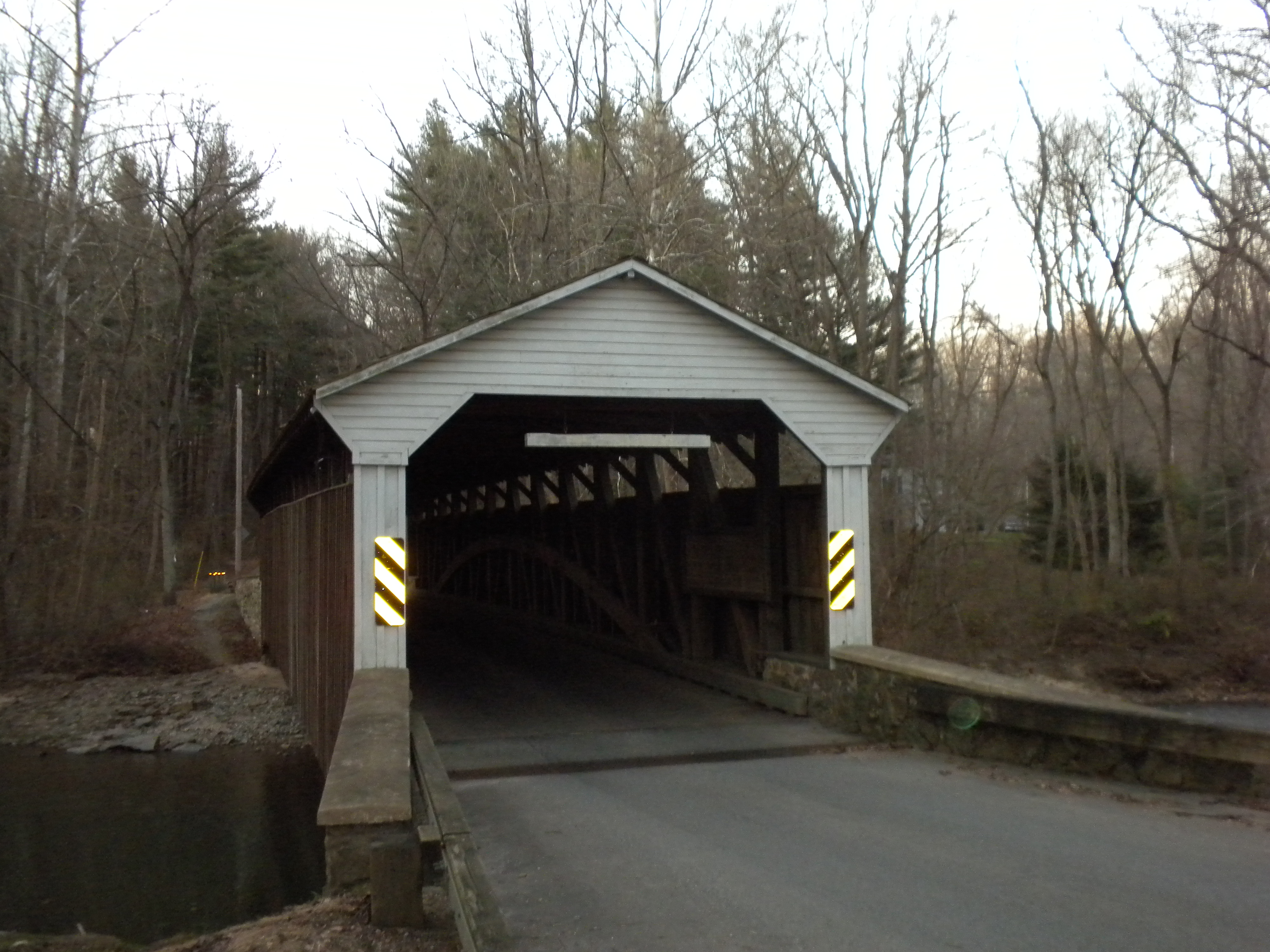 Linton Stevens Covered Bridge near Oxford PA on Kings Row Road, in Chester County. On NRHP. Own work donated to public domain.